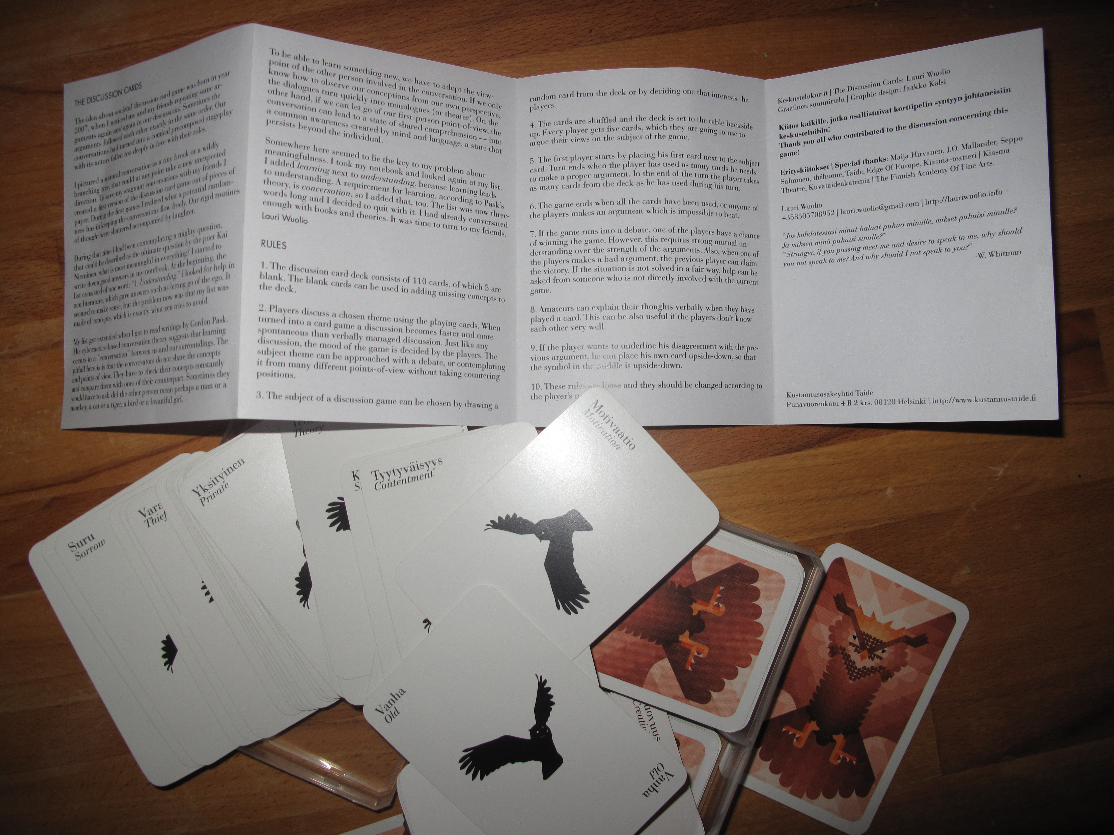 Artwork by Lauri Wuoli. "A societal card game and performance. The deck consists of 110 cards (105 concepts + 5 jokers). The cards bring in elements of humour and chaos into serious discussions, or games, which can be organized as a political card game tournament."